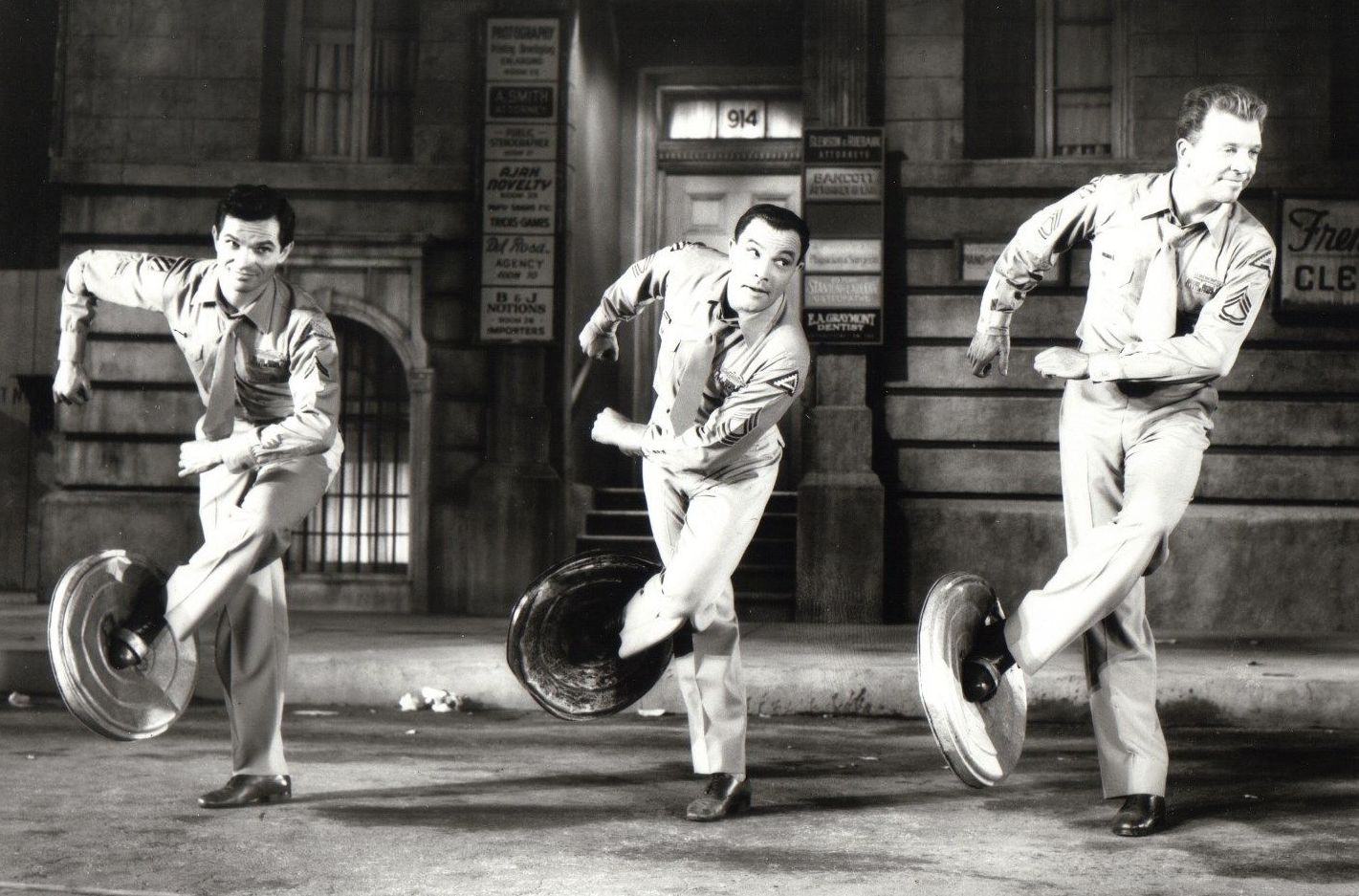 Publicity photo for "It's Always Fair Weather" (1955), showing Michael Kidd, Gene Kelly and Dan Dailey